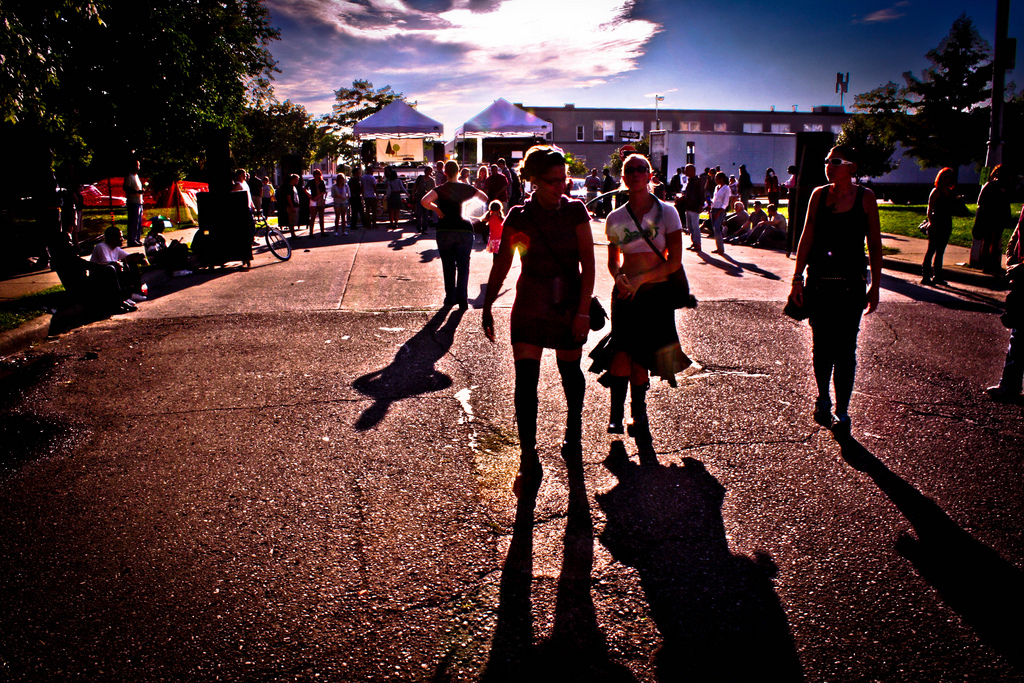 Dally in the Alley on Hancock, between 2nd & 3rd Street.